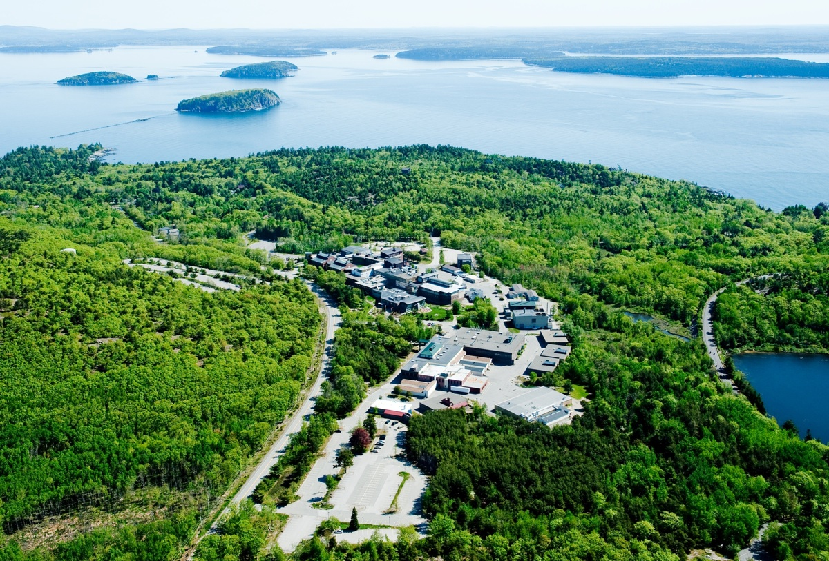 Located near scenic Frenchman Bay on Mount Desert Island, Maine, The Jackson Laboratory is a nonprofit biomedical research institution.